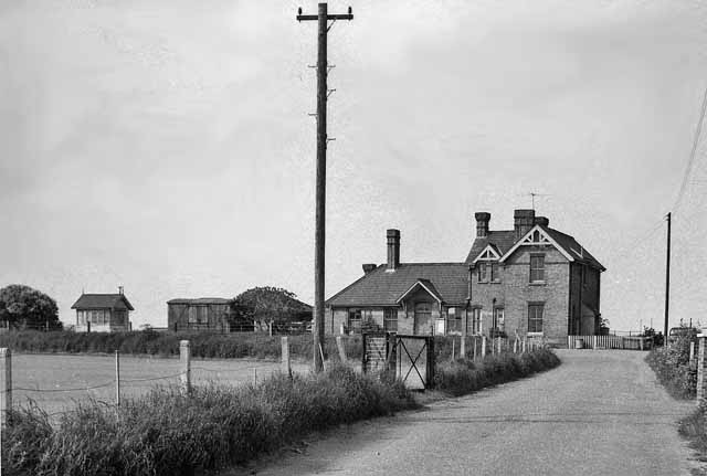 Buxton Lamas Station (converted?) View NE, across the ex-Great Eastern, Wroxham (right) - Aylsham (left) - County School line, which closed to passengers on 15/9/52, to goods on 19/4/65. A new Buxton station was provided by the (narrow-gauge) Bure Valley Railway (Wroxham - Aylsham), opened 10/7/90.